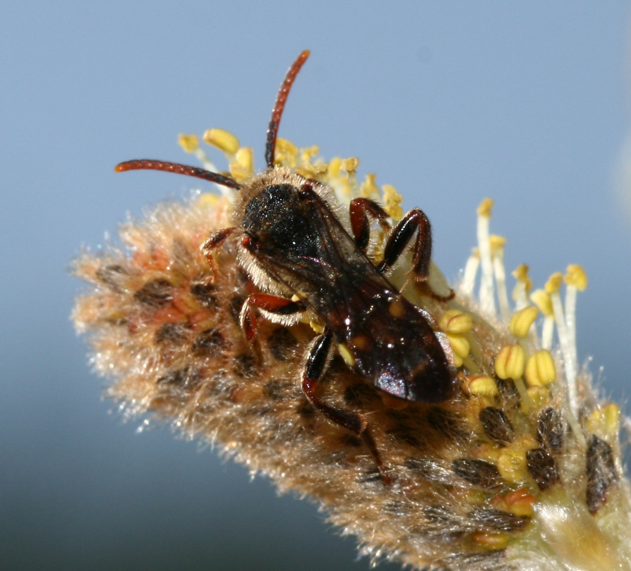 Nomada leucophthalma, male Armet Forest, Berwickshire, Scotland. Thanks to Bernhard Jacobi for the identification.